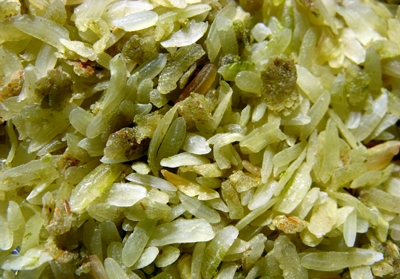 Duman[1]